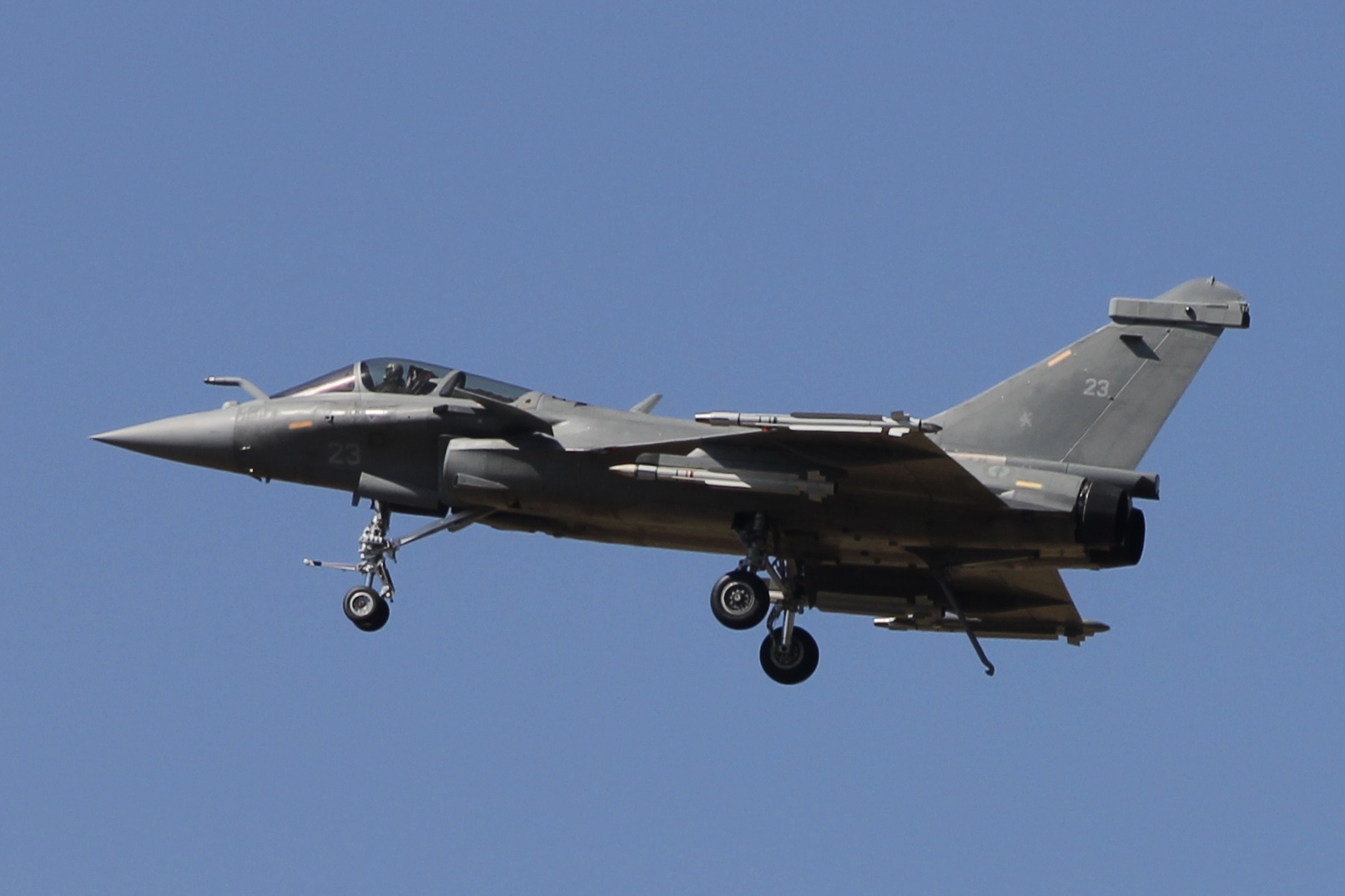 French Navy Rafale M, RIAT 2018